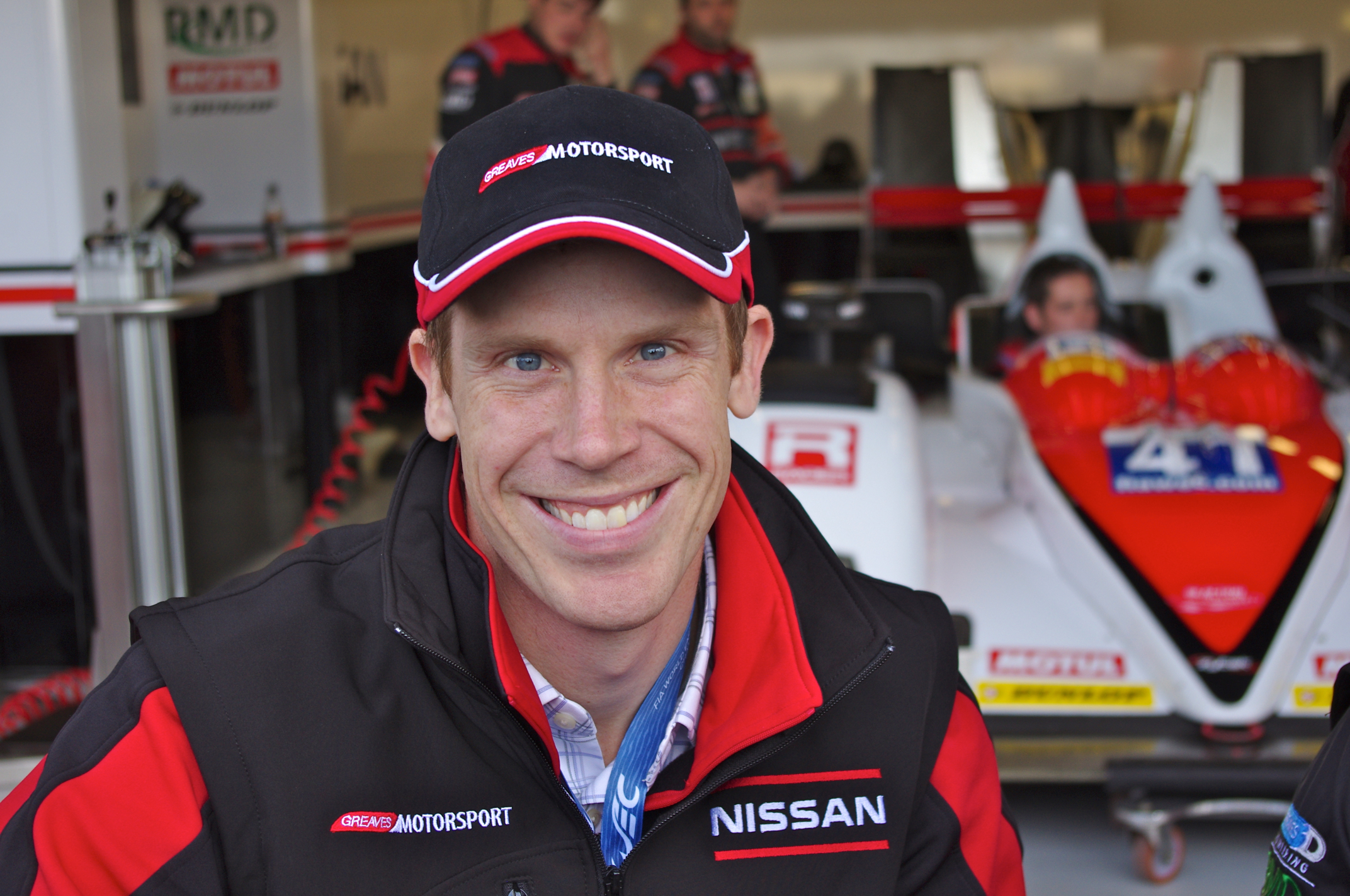 Silverstone 6 Hours 2013 FIA World Endurance Championship (WEC)